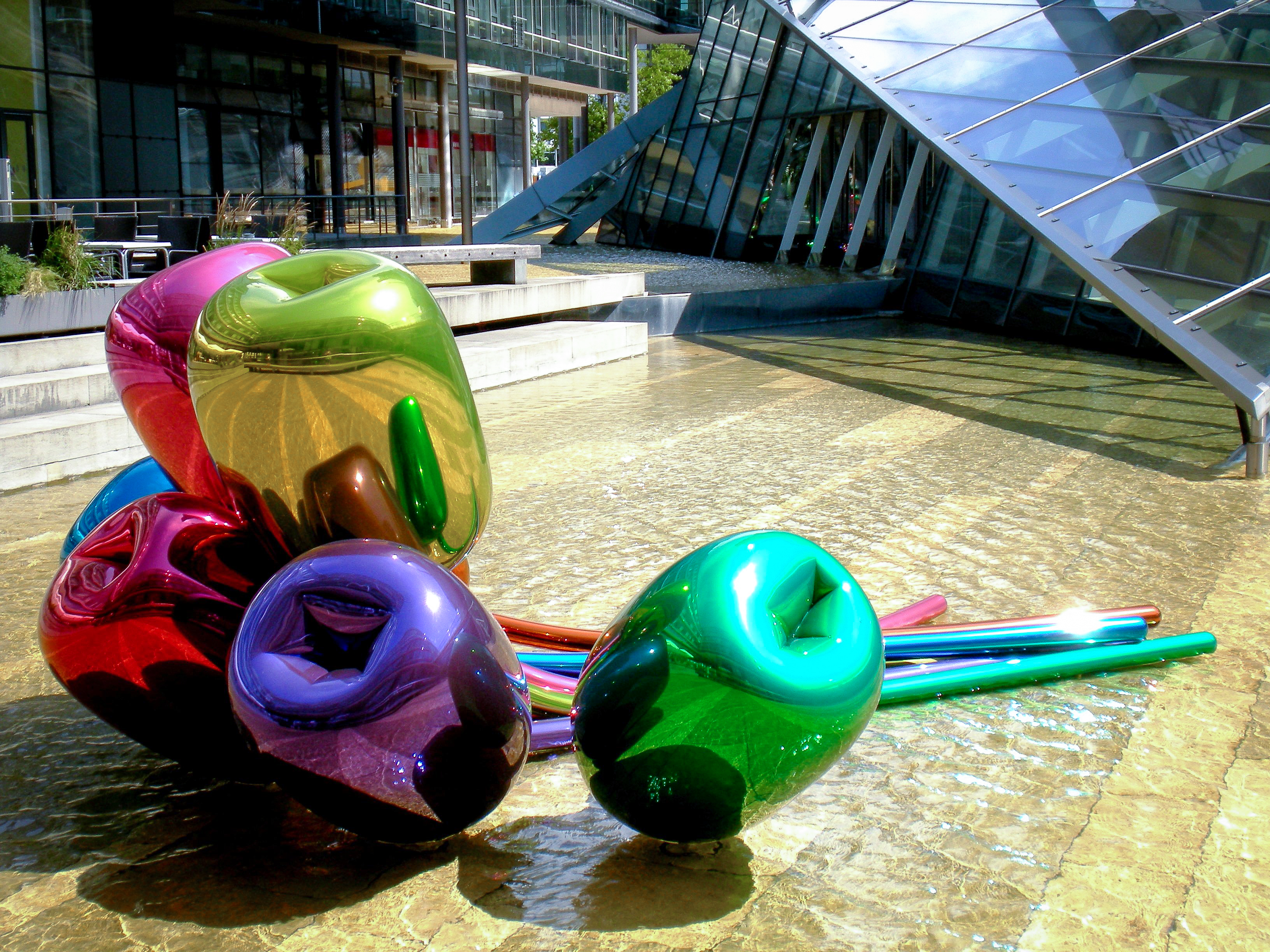 Sculpture "Tulips" by Jeff Koons. At the time the image was taken, the sculpture was located at the Nord-LB office building in Hanover, Germany.